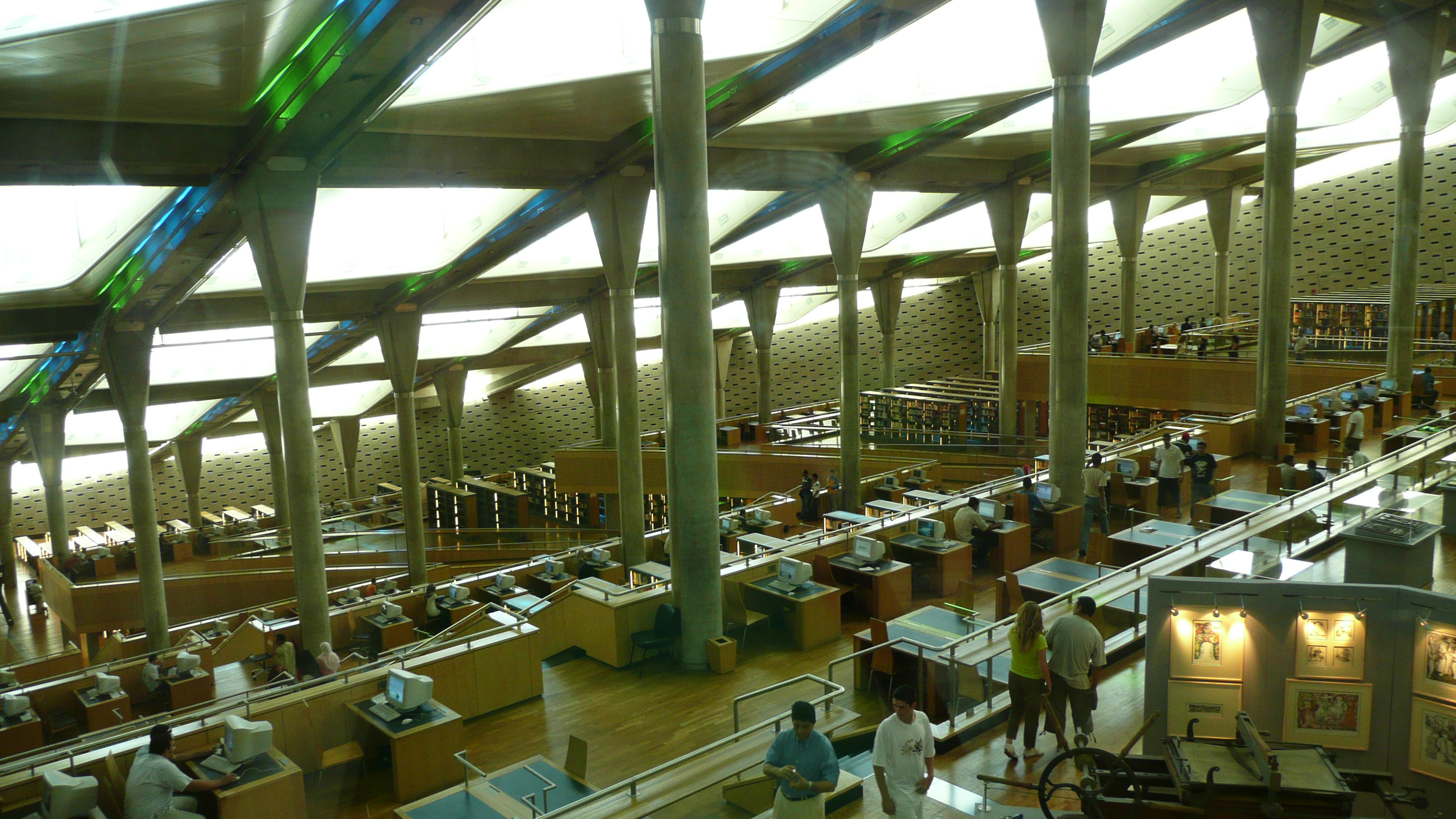 The world's largest open reading space - the interior of the Bibliotheca Alexandrina in Alexandria, Egypt.